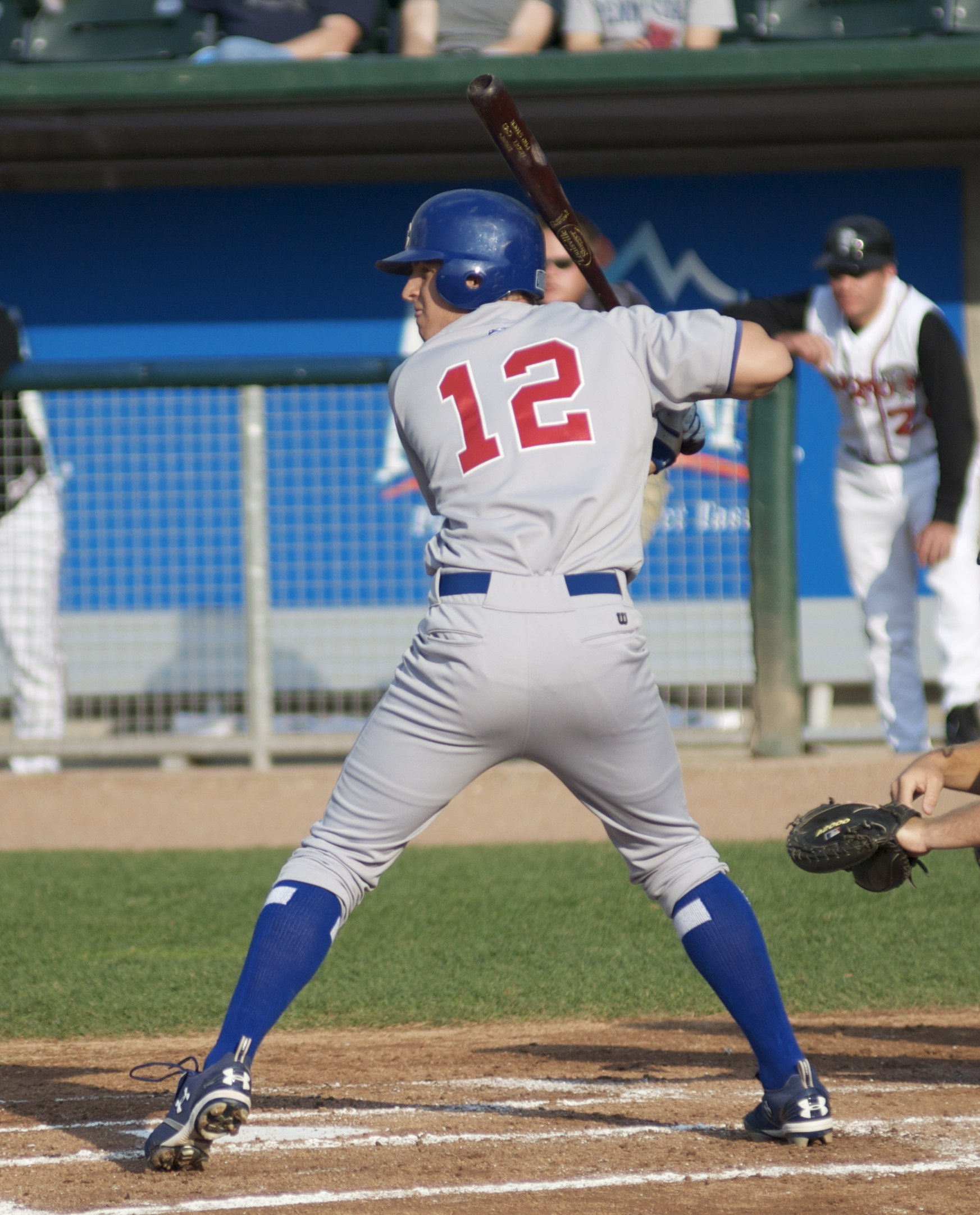 Josh Vitters batting for the Peoria Chiefs on April 21, 2008